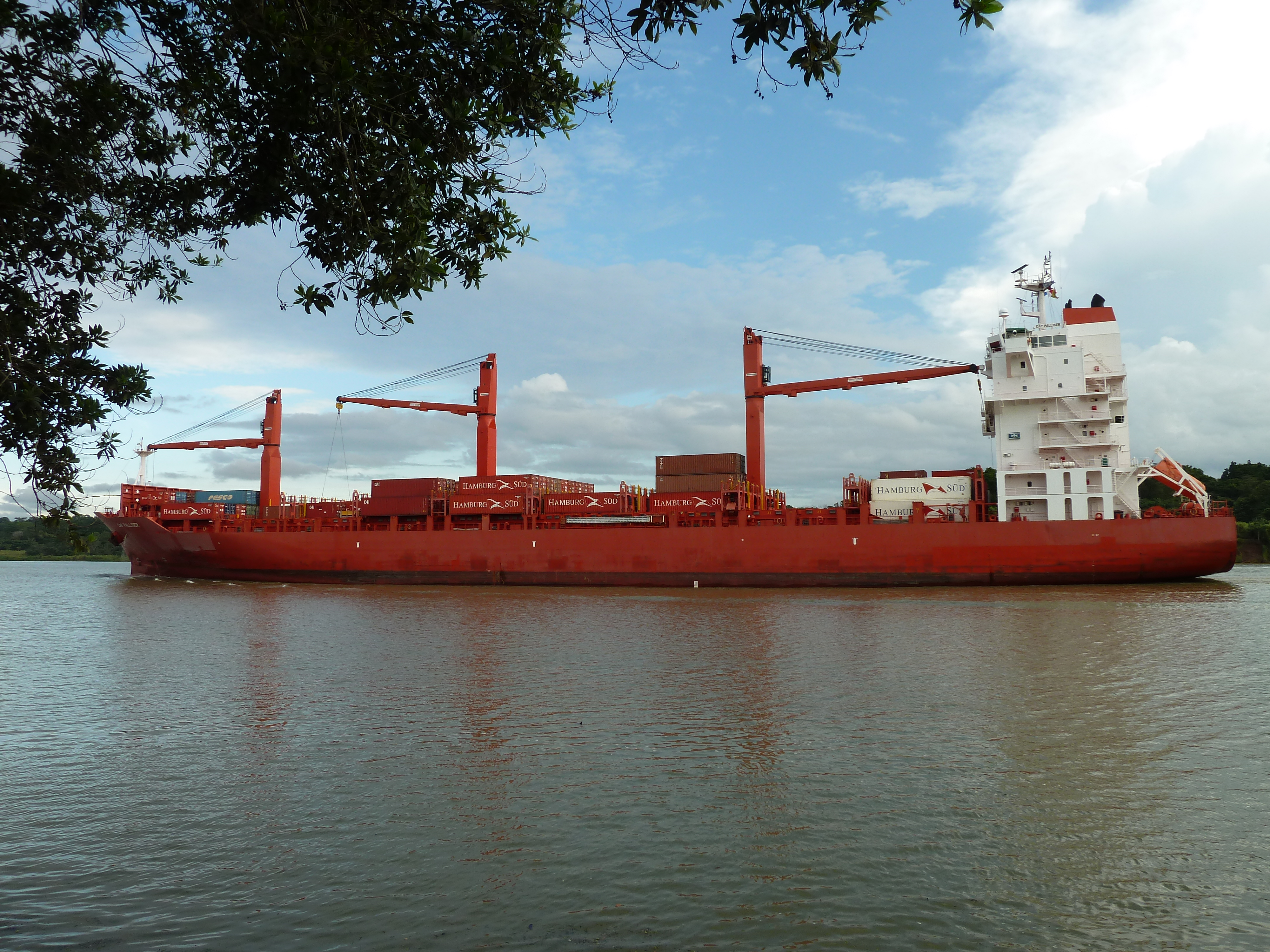 Pedro Miguel Locks, Panama Canal